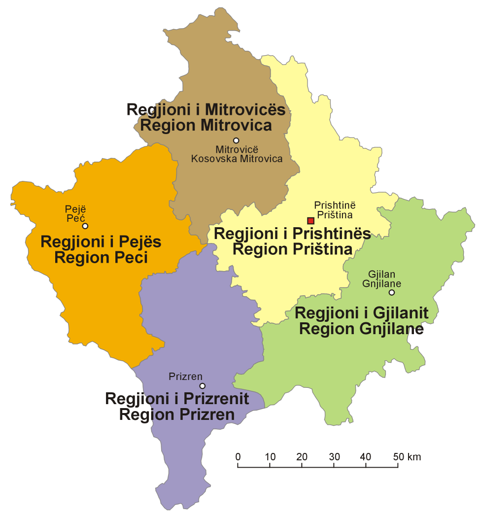 Regions of Kosovo (2008)